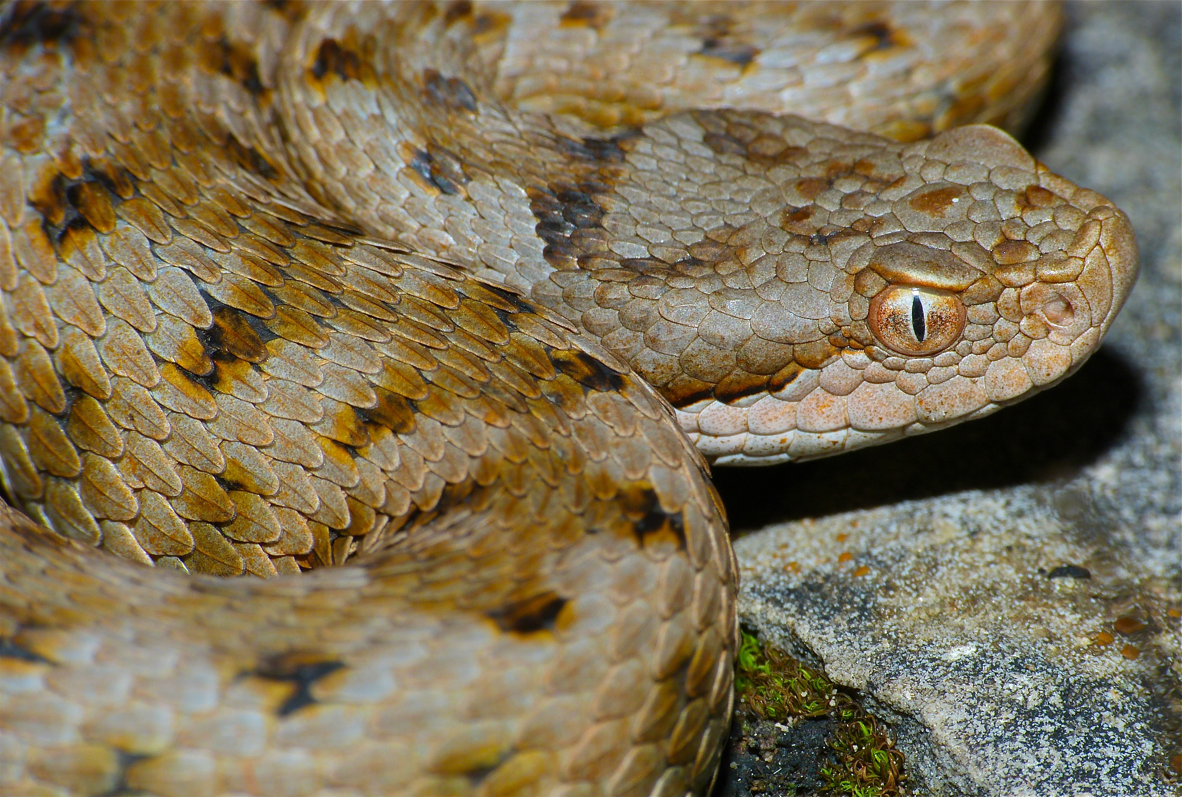 Les Rives, Hérault, FRANCE (Found by Jean NICOLAS)